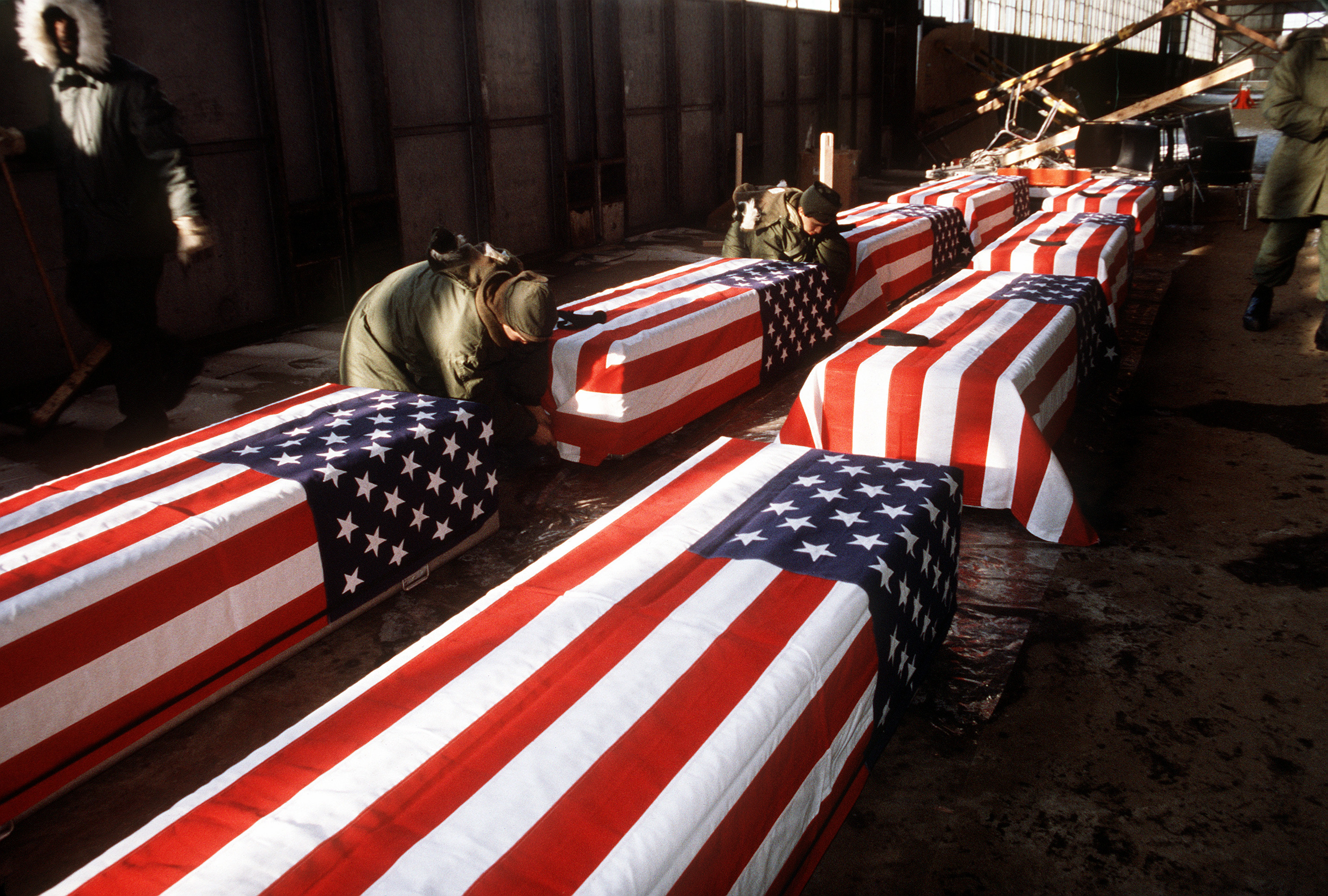 Gander, Newfoundland. Soldiers fasten flags to caskets containing the remains of members of the 3rd Bn., 502nd Inf., 101st Airborne Div., while working in a temporary morgue at Gander Airport. On December 12, 1985, 248 soldiers of the 3rd Battalion were killed in a plane crash at the airport. They were returning to the United States after participating in peacekeeping duty with the Multi-national Force and Observers in the Sinai Desert.